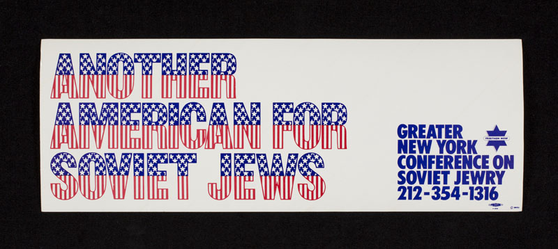 Date: undated Medium: Ephemera, paper sticker Repository: American Jewish Historical Society Parent Collection: Papers of Morey Schapira (P-906) Link to Digital Object: Call number: aa-p906-b73-f09-003 The sticker was originally found in Box 73 of the Papers of Morey Schapira (P-906). See more information about this image and the collection by viewing the finding aid: Papers of Morey Schapira. Rights Information: No known copyright restrictions; may be subject to third party rights. For more copyright information, click here. To inquire about rights and permissions, or if you have a question regarding the collection to which the image belongs, please contact the Reference Department of the American Jewish Historical Society by email. Digital images created by the Gruss Lipper Digital Laboratory at the Center for Jewish History. Digitization of select American Soviet Jewry Movement posters has been made possible through a generous grant from the National Historical Publications and Records Commission (NHPRC).